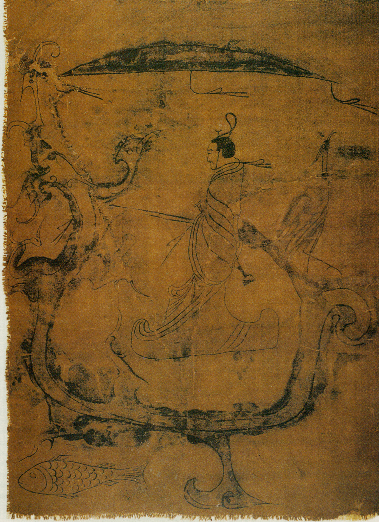 Silk painting featuring a man (a wizard) asking a dragon to go to the sky, dated to 5th century BCE (Warring States period). Describe a wizard, asking with a rope to a dragon to go up in the sky, meaning a peacefull year, as it should do one time a year. This finework is in Changsha, Hunan province, at the Hunan provincial museum.